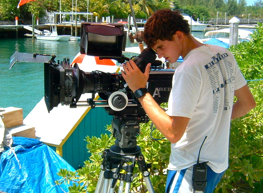 Roman Dent using RED camera